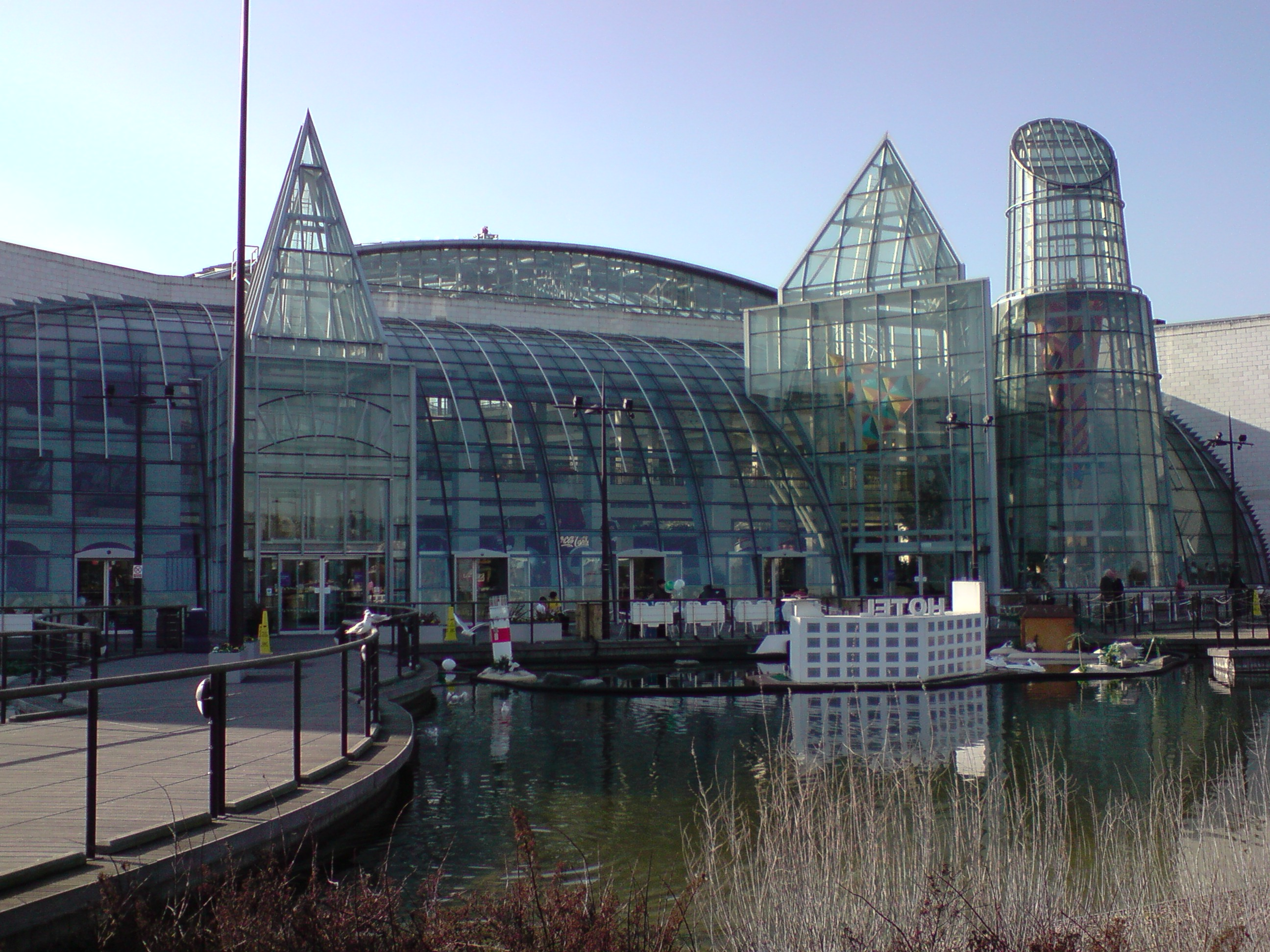 Exterior shot from Bluewater shopping mall.